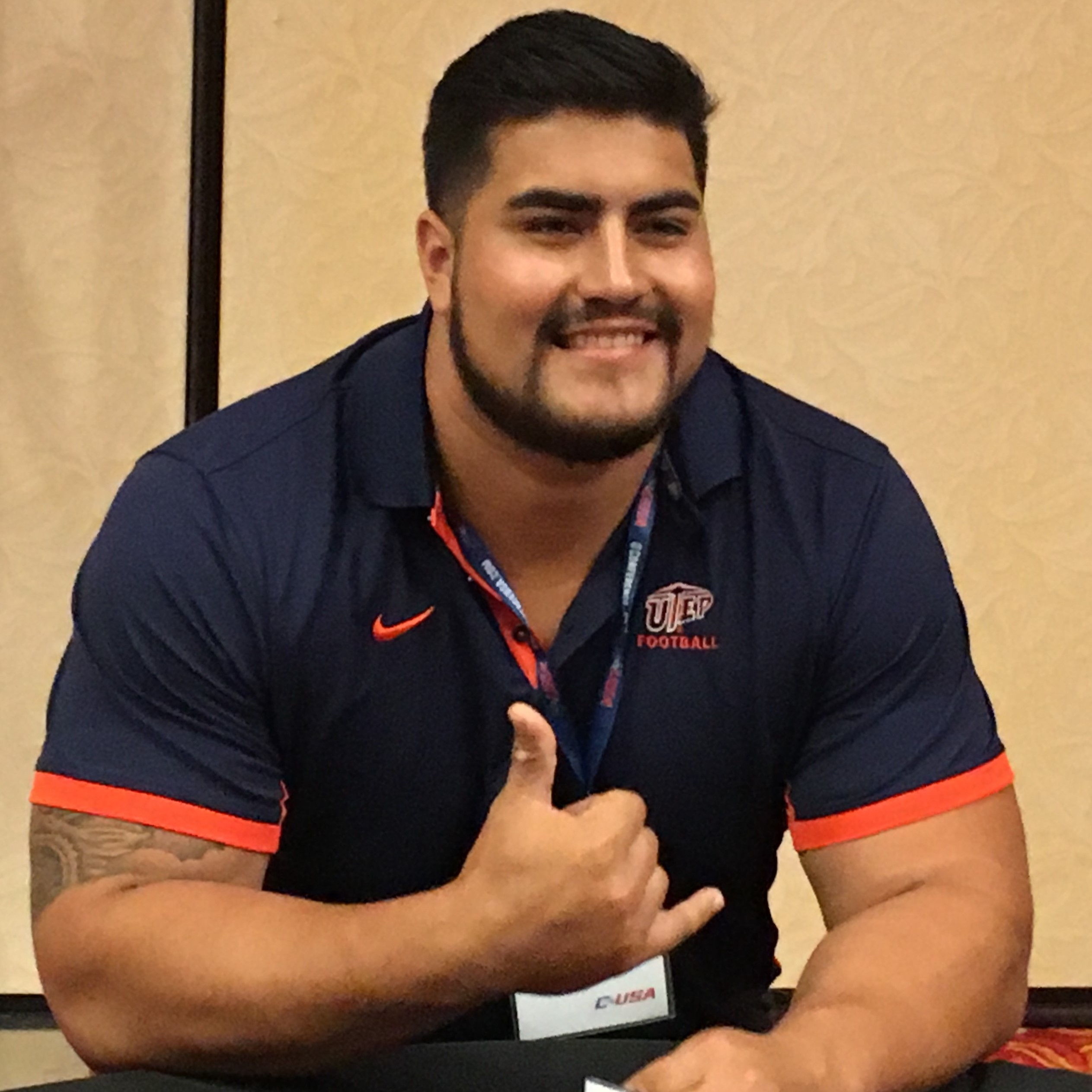 Will Hernandez, offensive guard on the UTEP Miners football team, at the 2017 Conference USA media days in Irving, Texas.